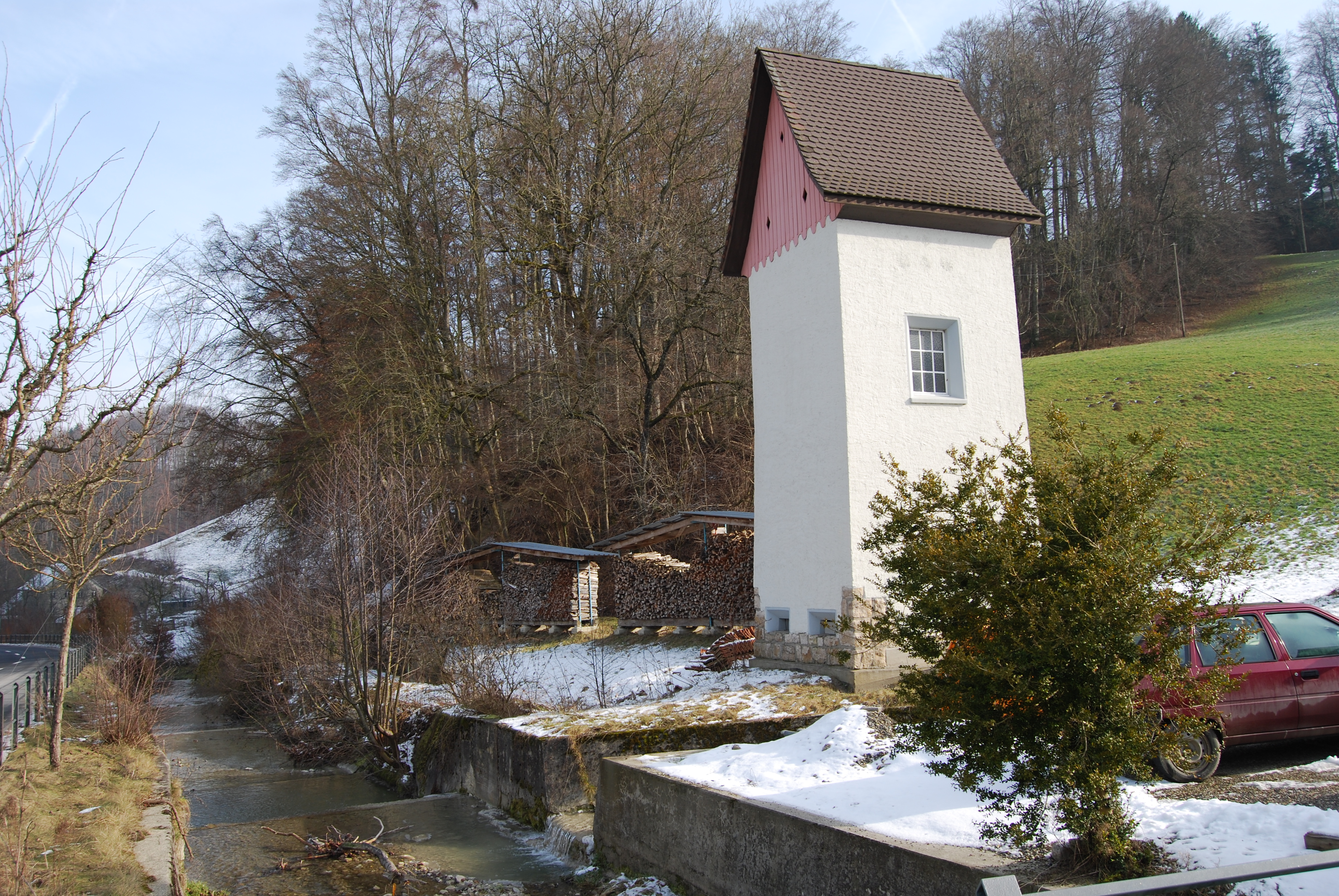 The river Ruederche at Schmiedrued, canton of Aargau, SwitzerlandEsperanto: La rivereto Ruederche en Schmiedrued, Kantono Argovio, Svislando